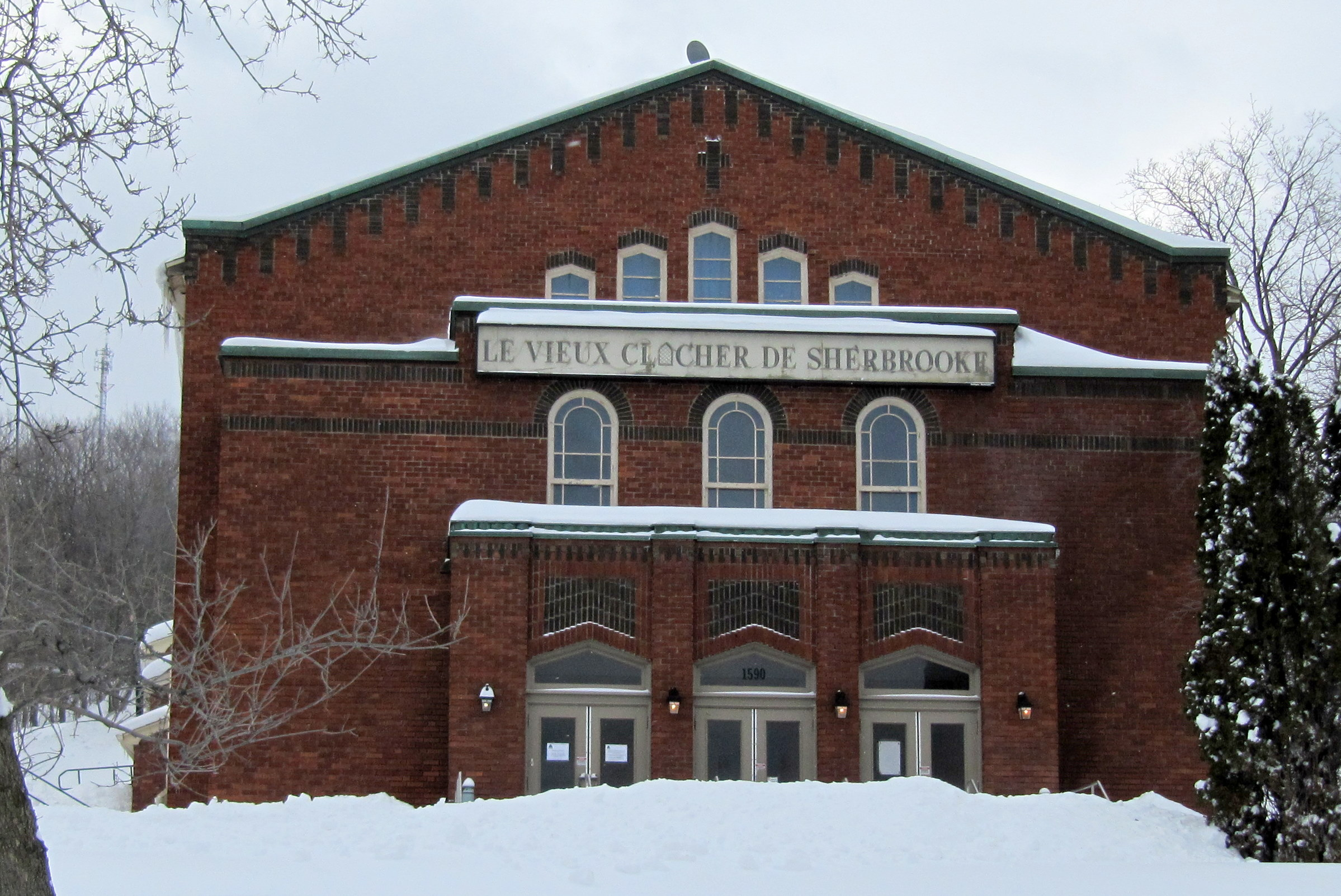 Vieux Clocher de l'Université de Sherbrooke (old name shown on picture)